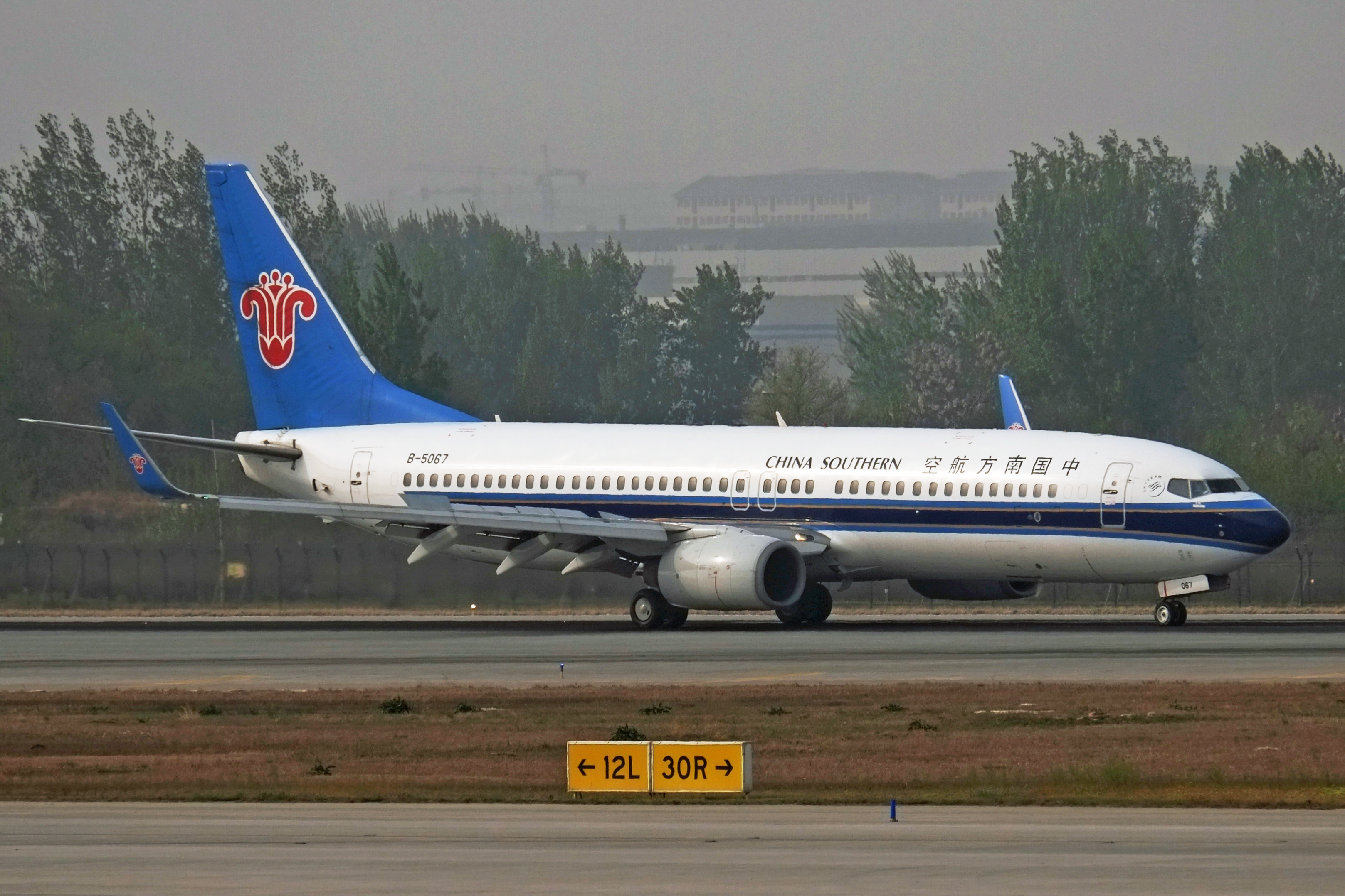 B-5067 on flight CZ3972 from Guangzhou landing at CGO